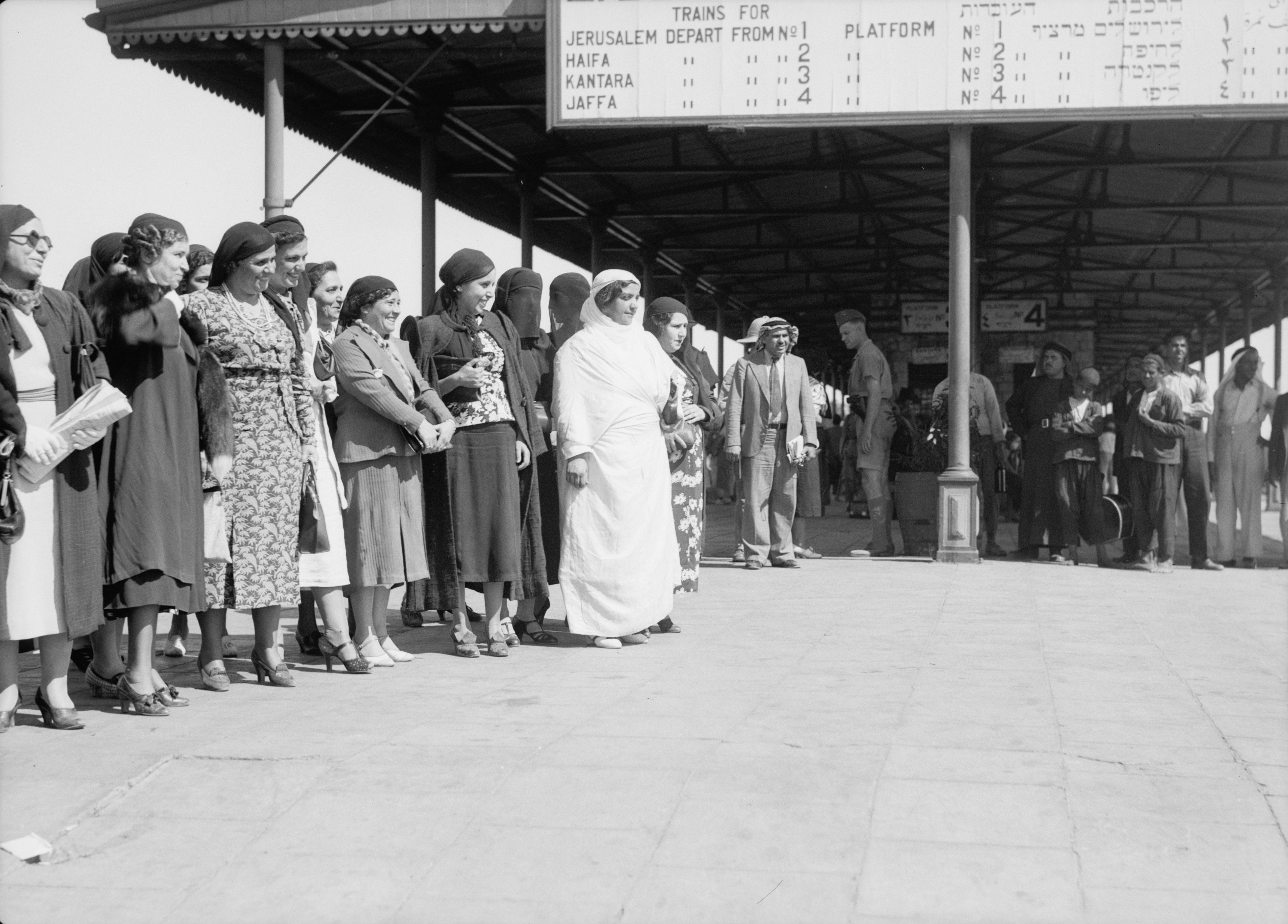 Title: Palestine delegation of Arab ladies leaving Lydda Junction for Cairo, Oct 12, '38 Abstract/medium: G. Eric and Edith Matson Photograph Collection Physical description: 1 negative